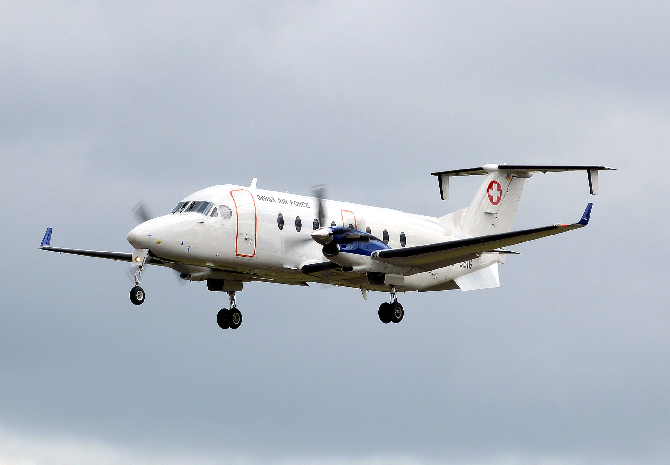 Beechcraft 1900D (D-CBIG) of the Swiss Air Force at the Royal International Air Tattoo, Fairford, Gloucestershire, England. This aircraft was leased from a German company so the registration (D-CBIG) is German. This picture was taken at RIAT Fairford on the Thursday before the show days of Saturday and Sunday. The show was later cancelled for both days, due to waterlogged car parks. Photographed by Adrian Pingstone in July 2008 and placed in the public domain. Change to second version: because I realised I had oversharpened, causing white halos around the U/C wheels.